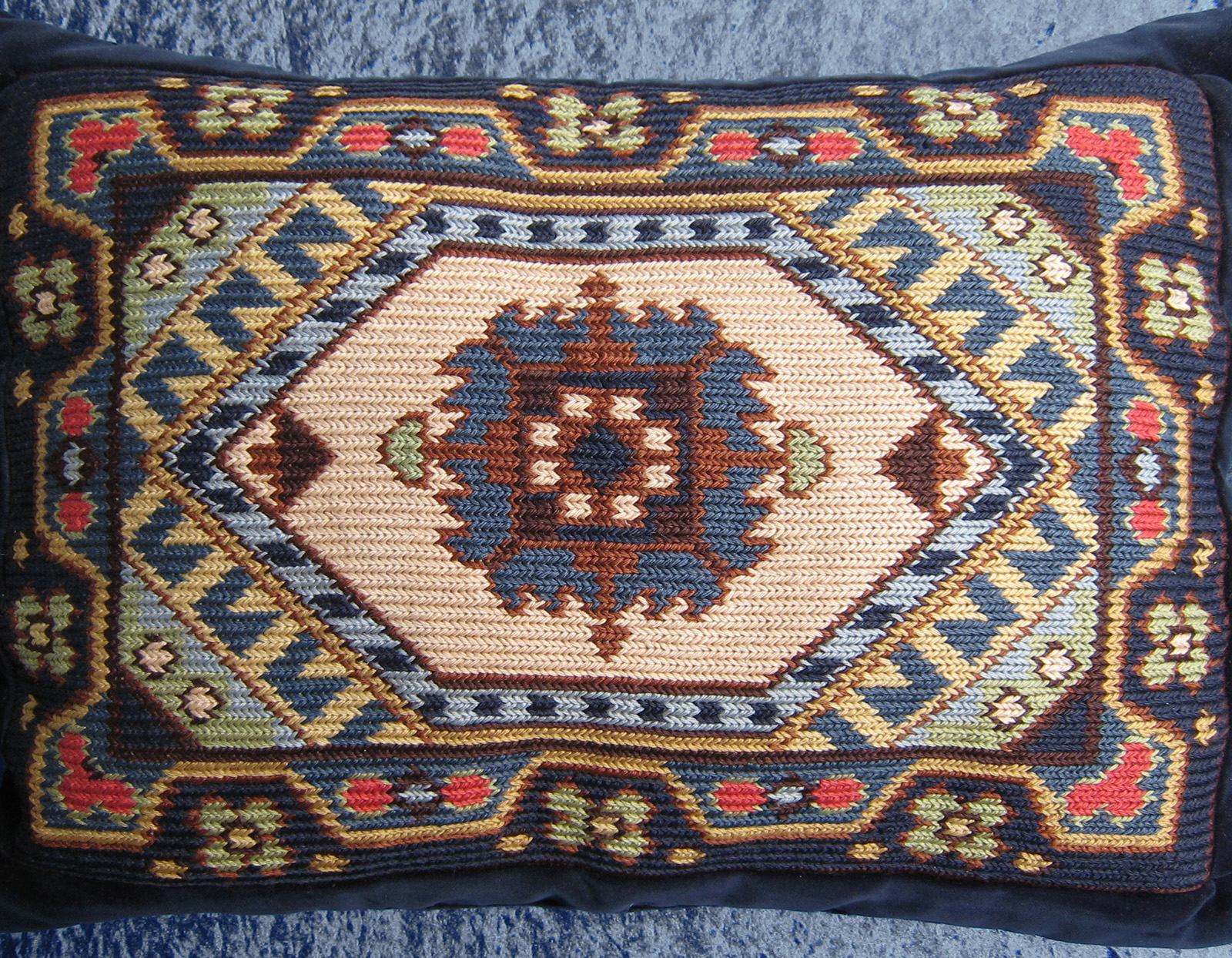 Piece of kelim embroidery on a cushion, made in the 1930th